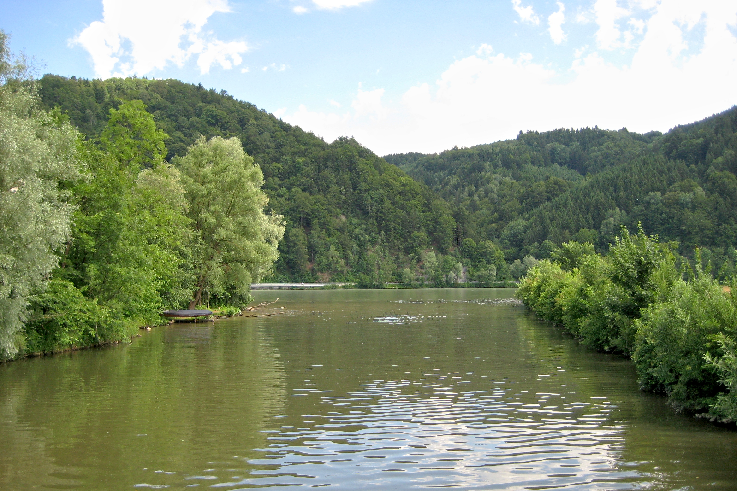 The Erlau opening into the Danube